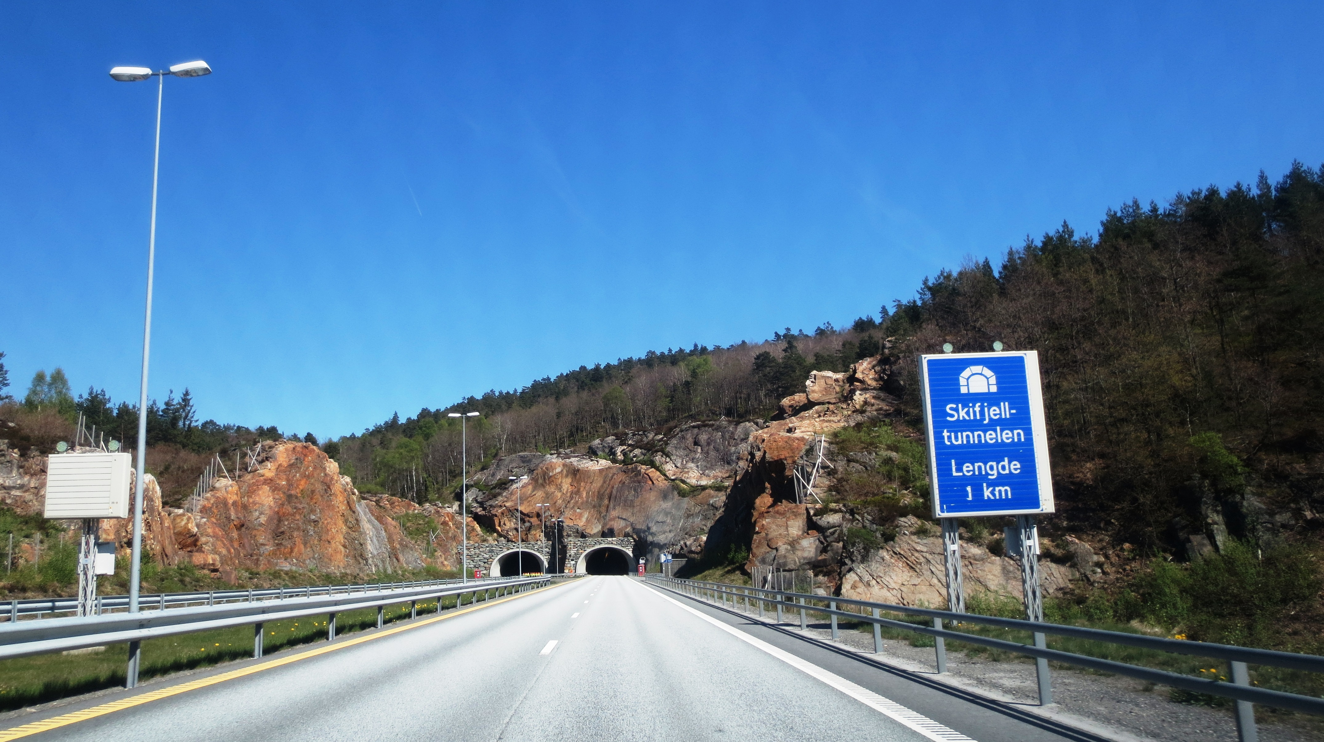 Image from along the E39 highway through western parts of Lillesand municipality, Aust-Agder county, Norway. The geology is a 1,000 mya old craton of gneiss-quartzite-marble dominance, a part of the Sveco-norvegian craton.